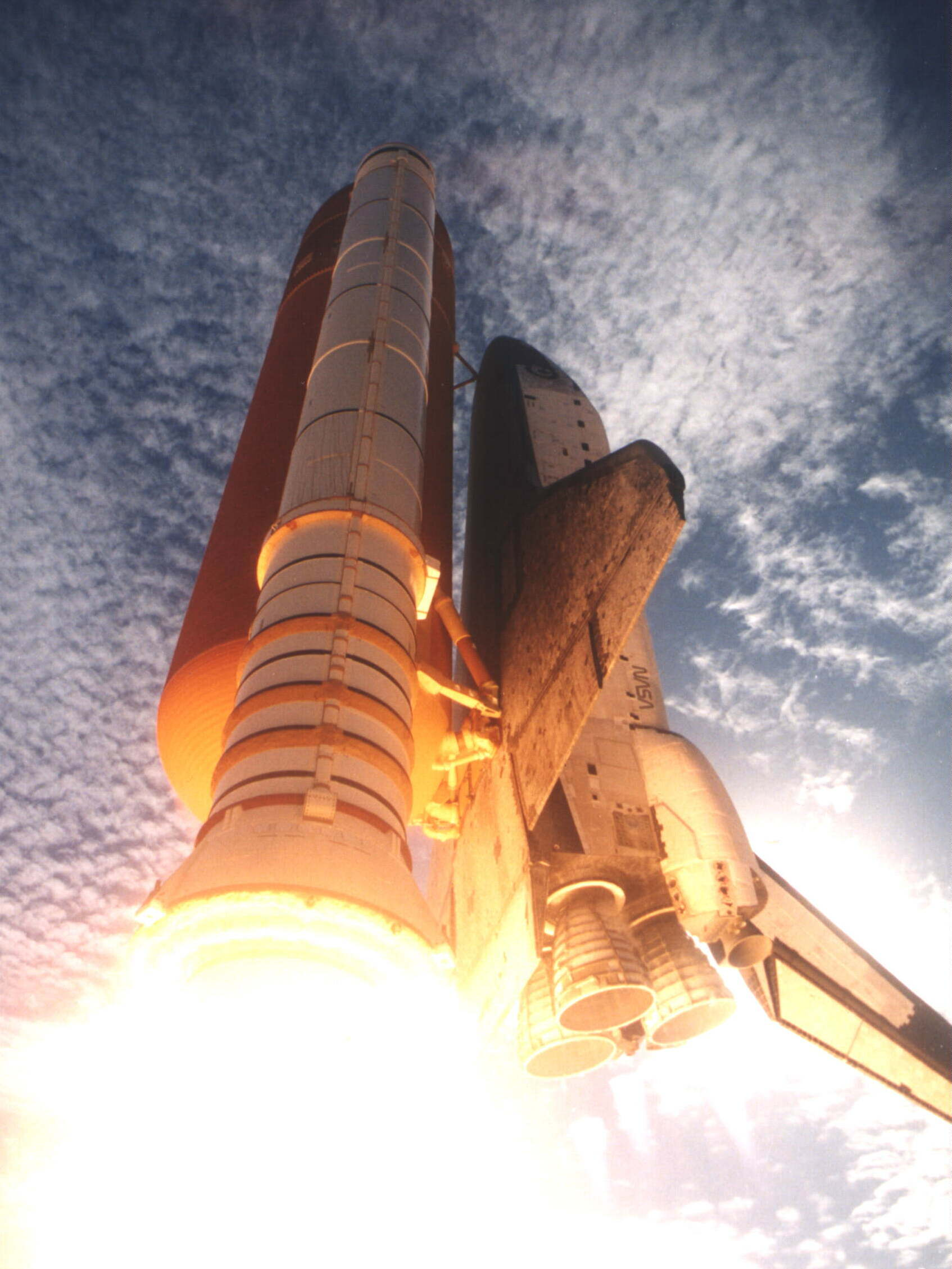 STS-73 Columbia launch from below